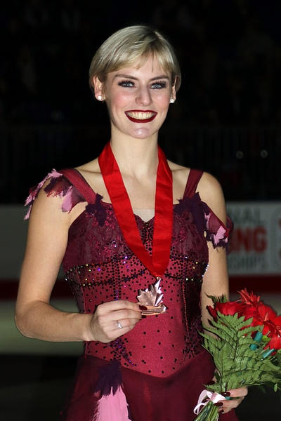 Larkyn Austman at the 2018 Canadian Championships - Awarding ceremony